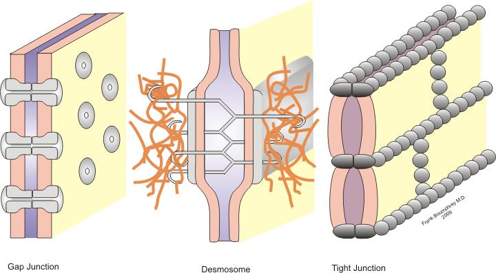 Illustration of tight junction, gap junction, and Desmosomal junction (desmosome)